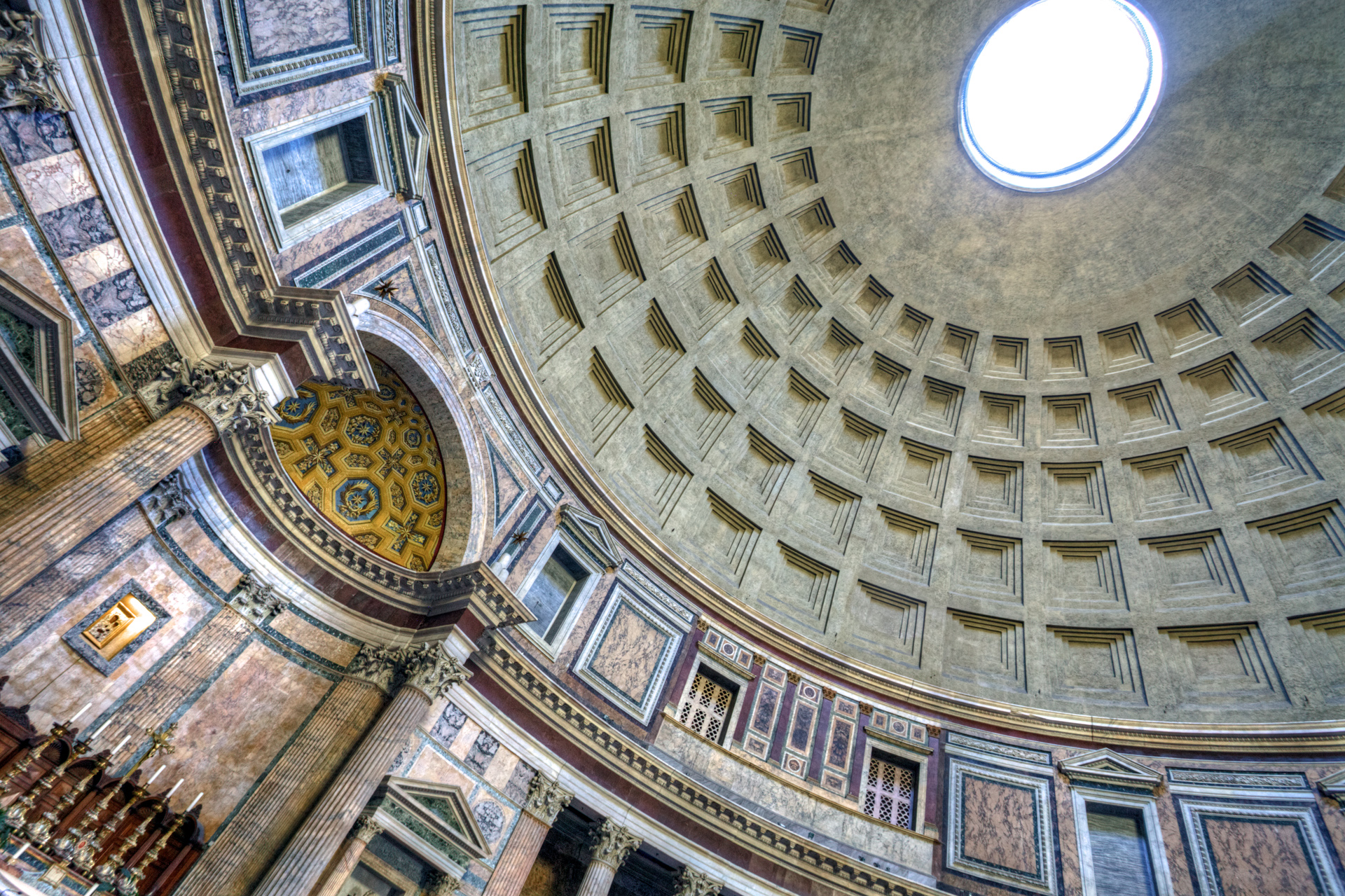 This is the ceiling of the Pantheon in Rome, Italy Photograph by Anne Dirkse